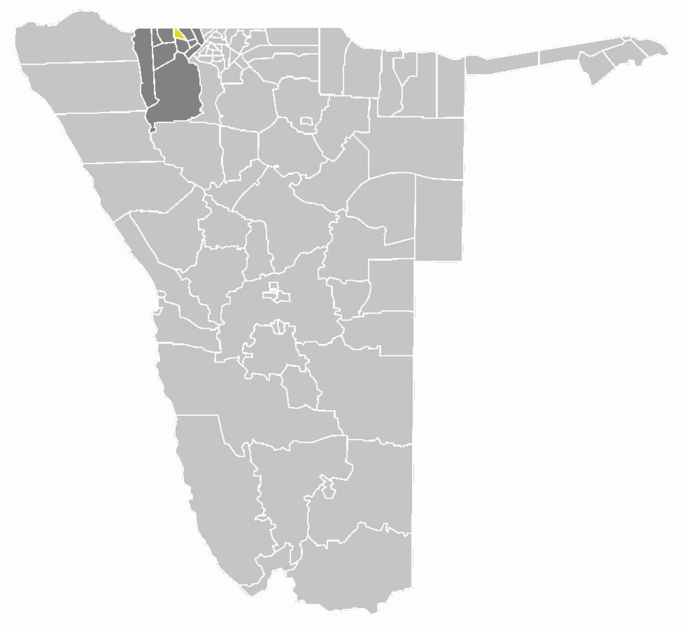 map of the Anamulenge constituency within the Omusati region, Namibia